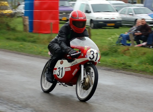 Jamathi 50cc GP-racer from 1970 seen in 2010.